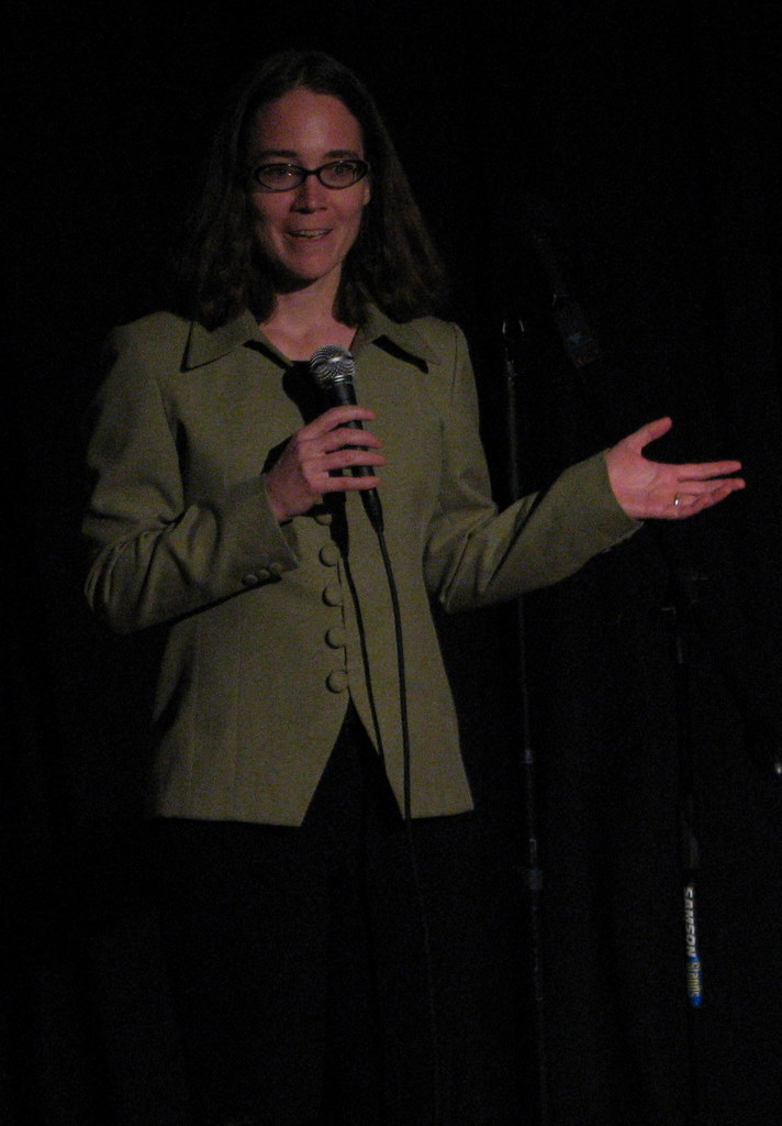 Marcy Wheeler, author of Anatomy of Deceit and firedoglake liveblogger for United States v. Libby. Photo taken at a fundraising event for the YearlyKos convention, at The Tank in New York City, March 10, 2007.